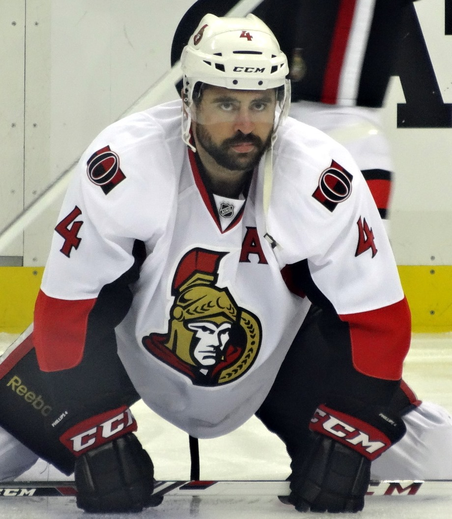 Ottawa Senators defenseman Chris Phillips during game two of their second round series against the Pittsburgh Penguins, May 17, 2013 at Consol Energy Center in Pittsburgh, PA.